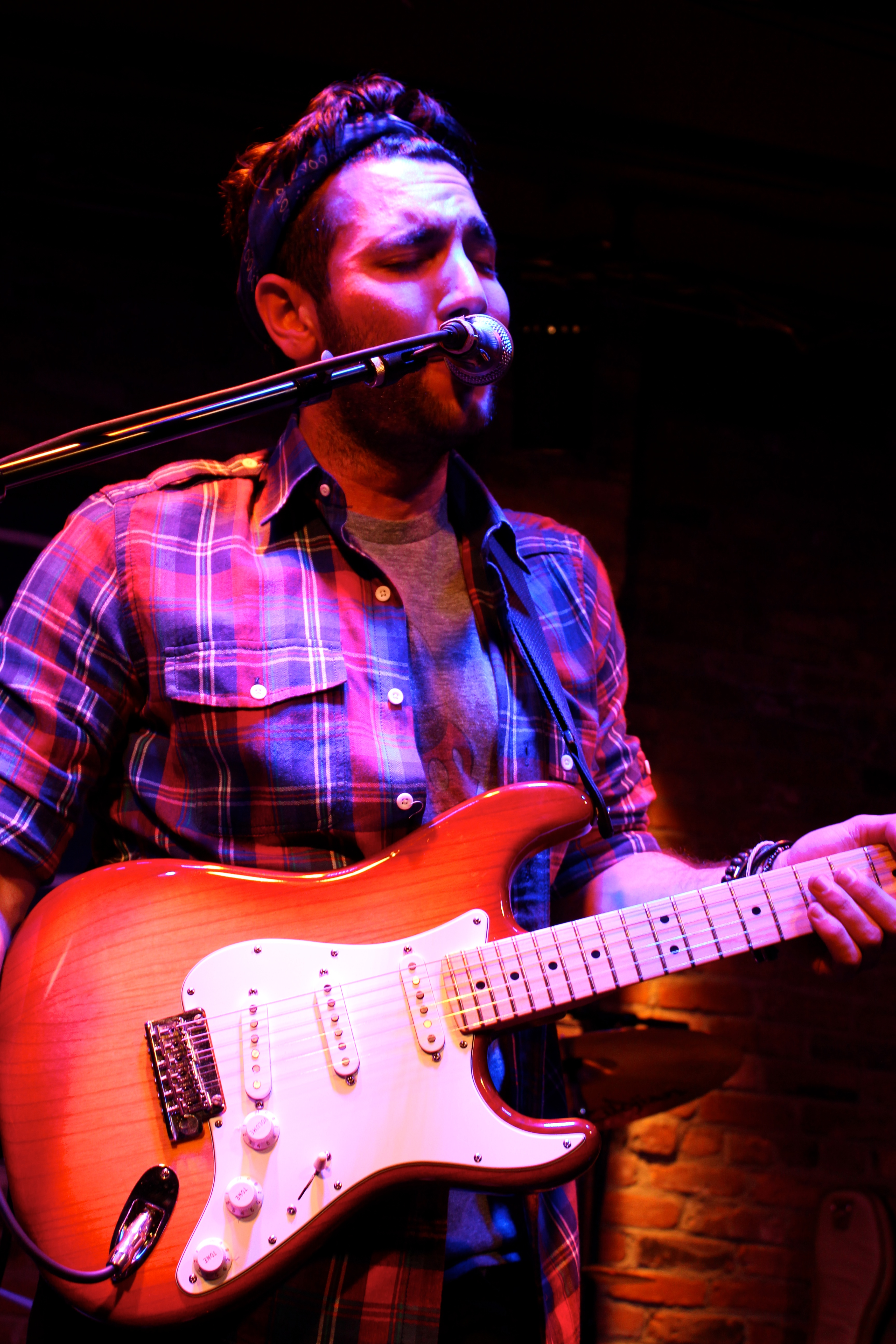 Ron Pope performing at The Bitter End in New York City on the Whatever it Takes tour